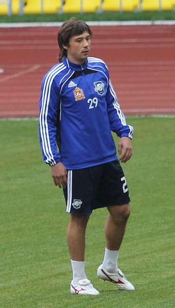 Leonid Kovel